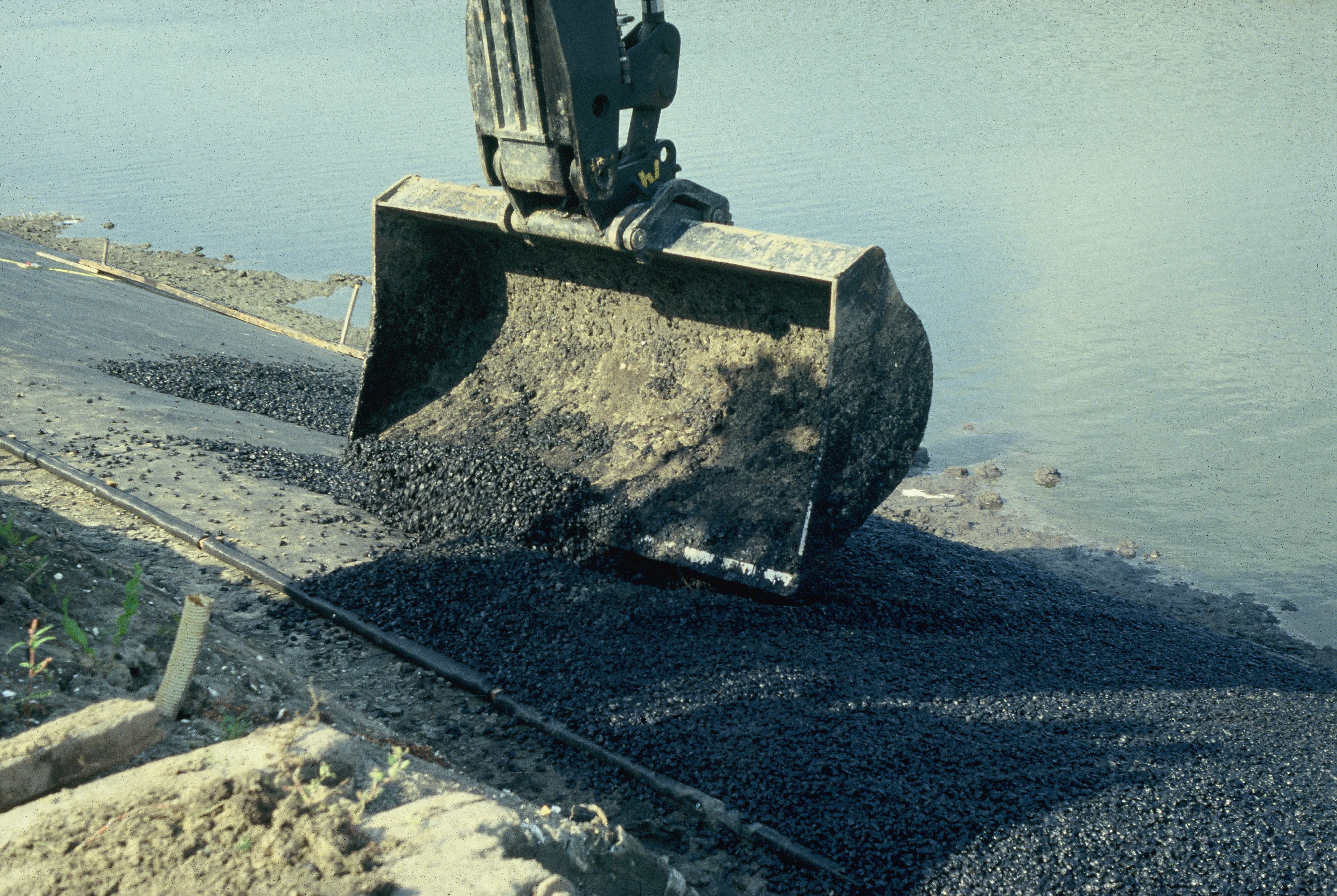 Open Stone Asphalt placed on an asphalt-concrete layer on a revetment of a navigation channel in the Netherlands